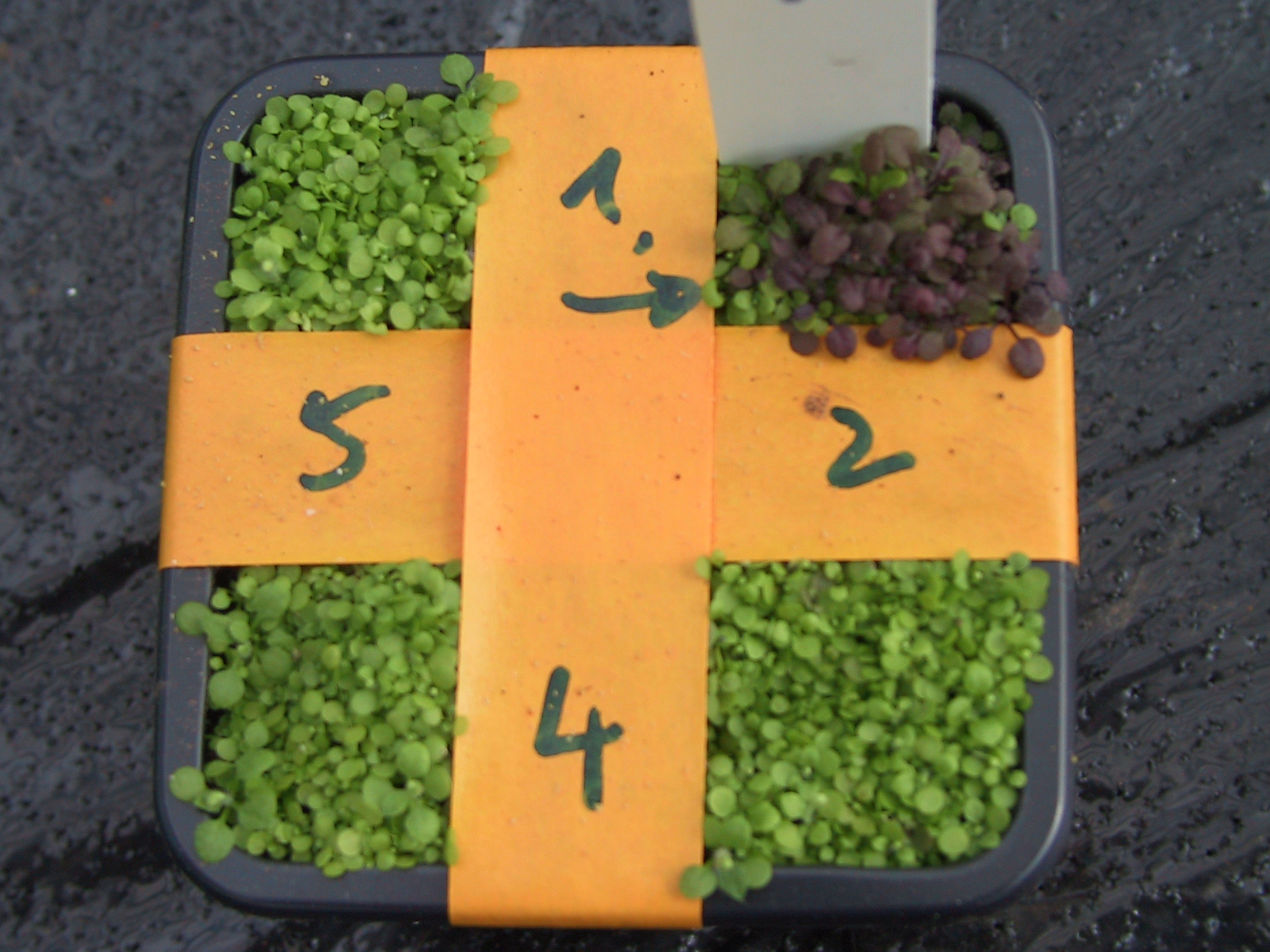 Original flickr caption: DANGER: Red marks the spot of a land mine. In Autumn, the plant's normal reaction is to turn red or brown when subjected to stressful conditions such as cold or drought. This weed has been genetically modified to change colors only in the presence of nitrogen-dioxide, a marker for landmines or other unexploded ordinance. The plant is also made to be sterile. The application would be to release the seeds from a crop duster over a former battleground area, and let the plants grow, marking the threats. Initial tests will be in Bosnia, Sri Lanka and Sub-Saharan Africa. The hope is that this will be more effective than the dogs and metal detectors used today. “Experts believe that there are more than 1 billion unexploded landmines in over 75 countries worldwide, and it is estimated that a landmine kills or injures someone every 20 minutes, usually children or teenagers.” (source)